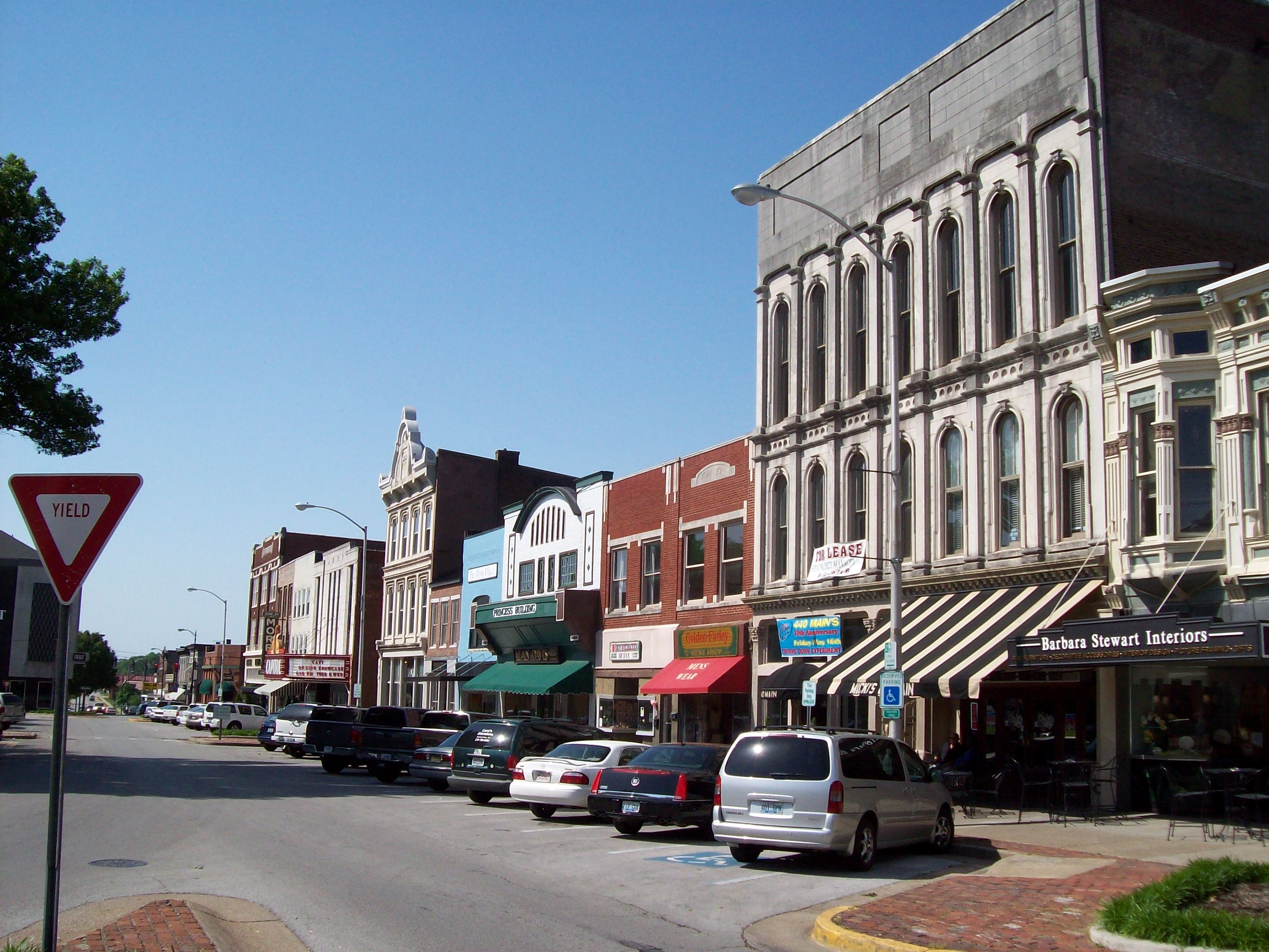 Street scene in Bowling Green, Kentucky, USA (Shops along Fountain Square, downtown)